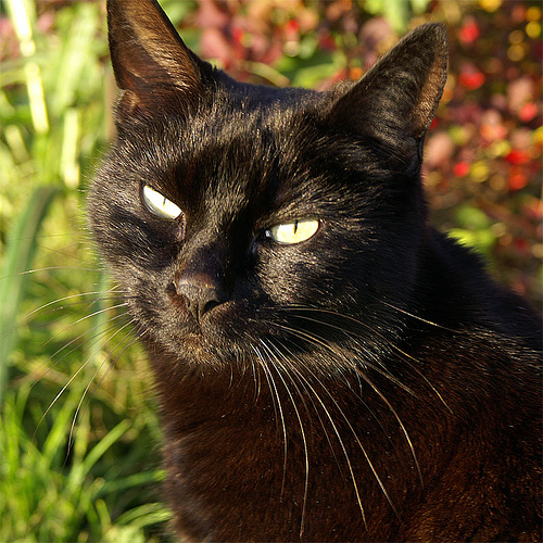 A black cat named Tilly